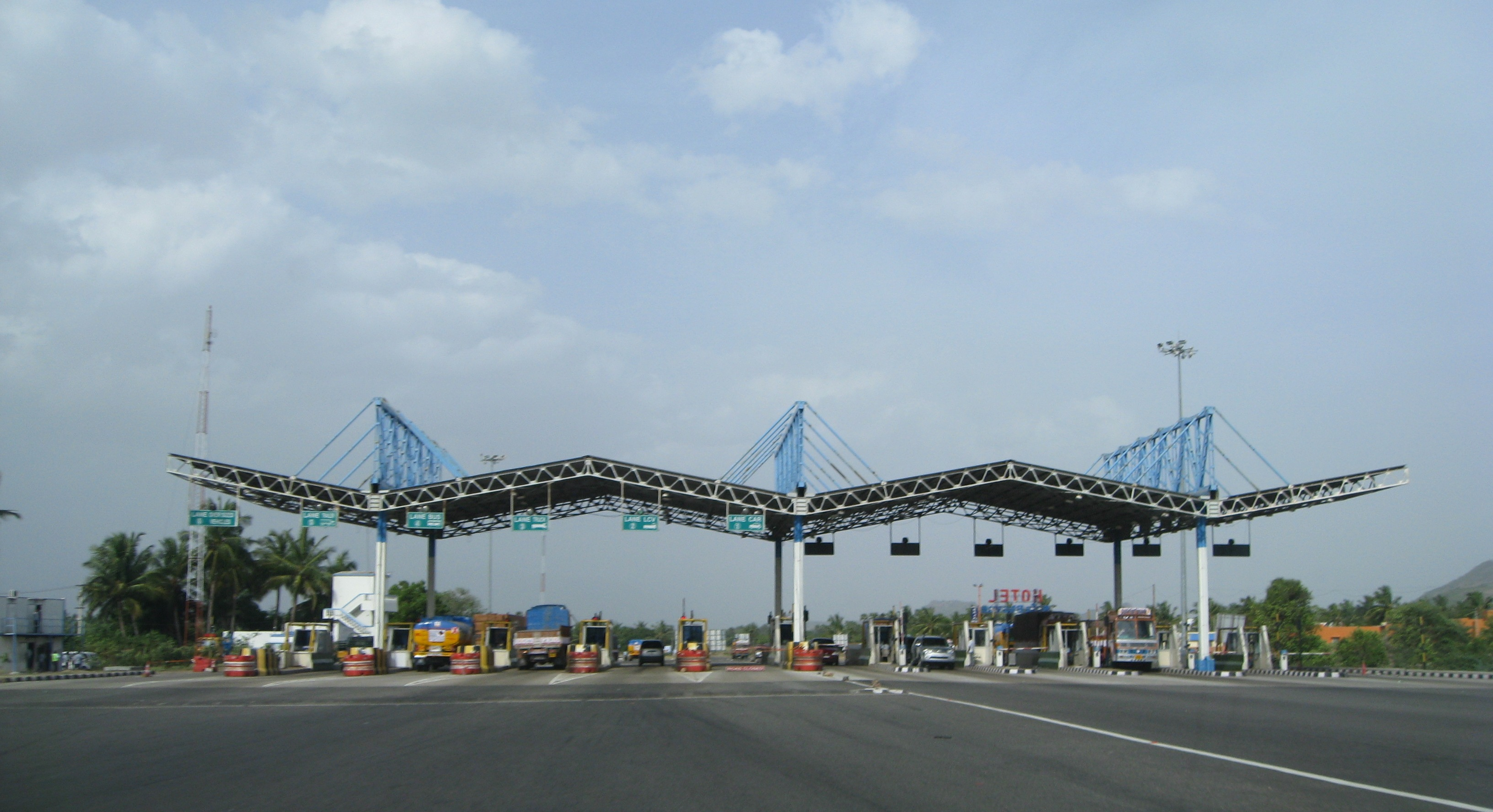 User Fee Collection Plaza on the Reliance Namakkal-Karur Toll Road.